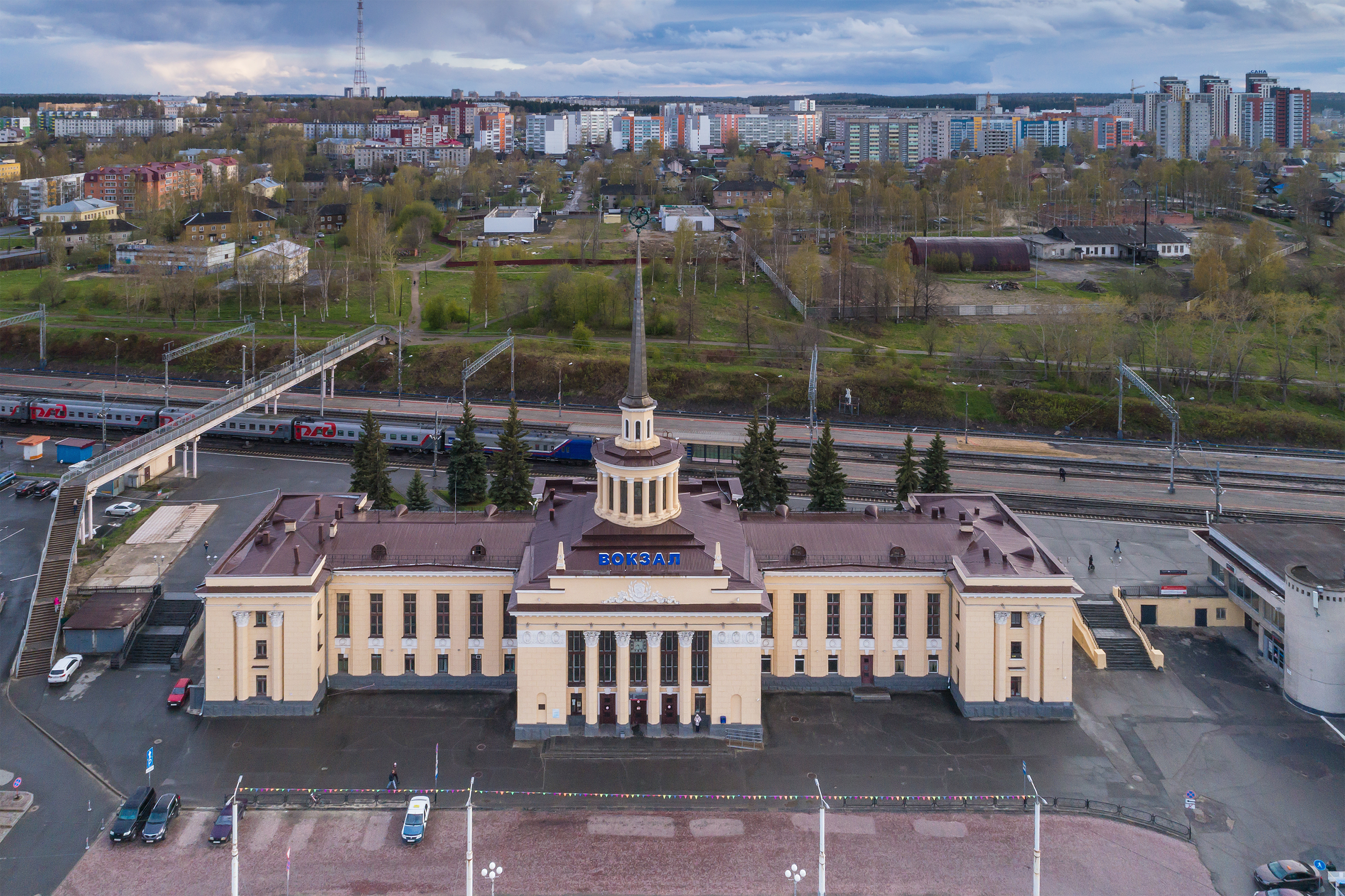 Main railway station (aerial photo) in Petrozavodsk, Republic of Karelia (Russia).